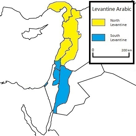 Map representing the distribution of the Levantine Arabic language in the area of the Levant, classified into North and South. Sources: Turkey: Ethnologue, Map Syria: Ethnologue, Map Lebanon: Glottolog, Ethnologue Jordan: Ethnologue, Map Palestine: Glottolog, Ethnologue